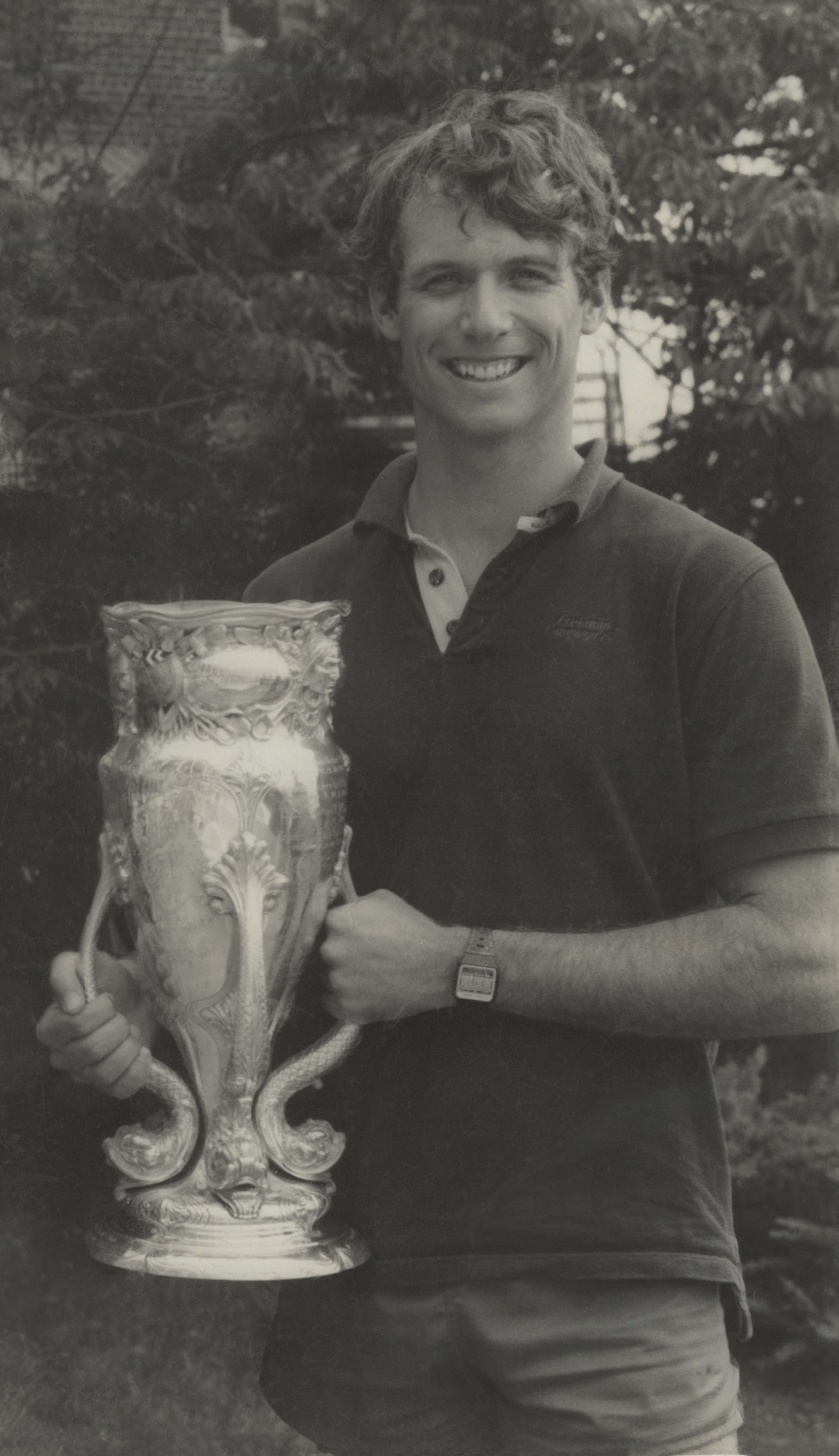 pclemancup01